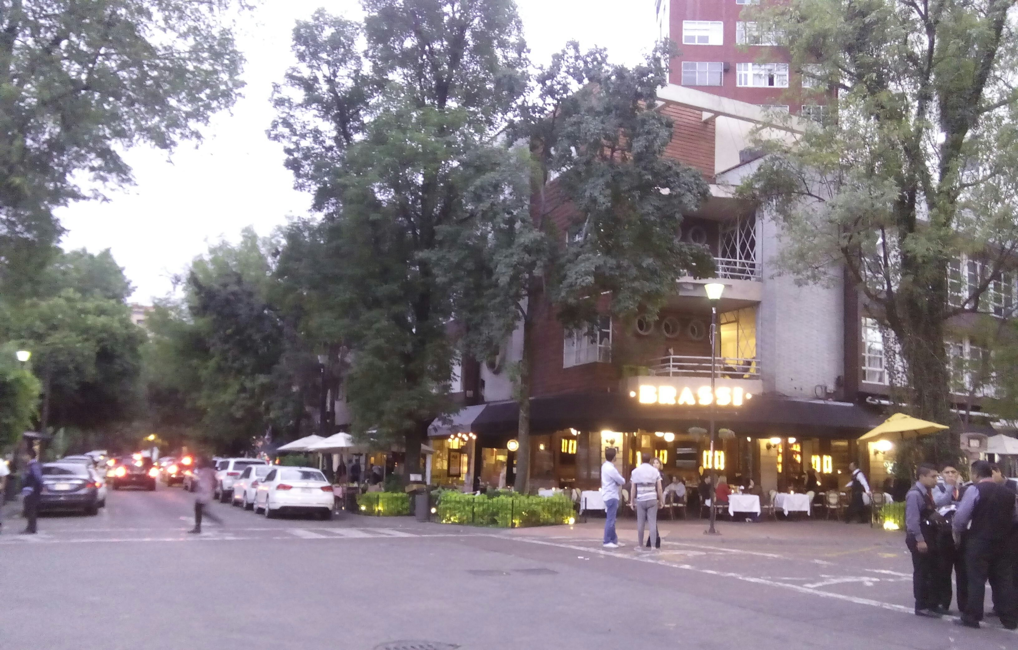 Mexico City's Polanquito view